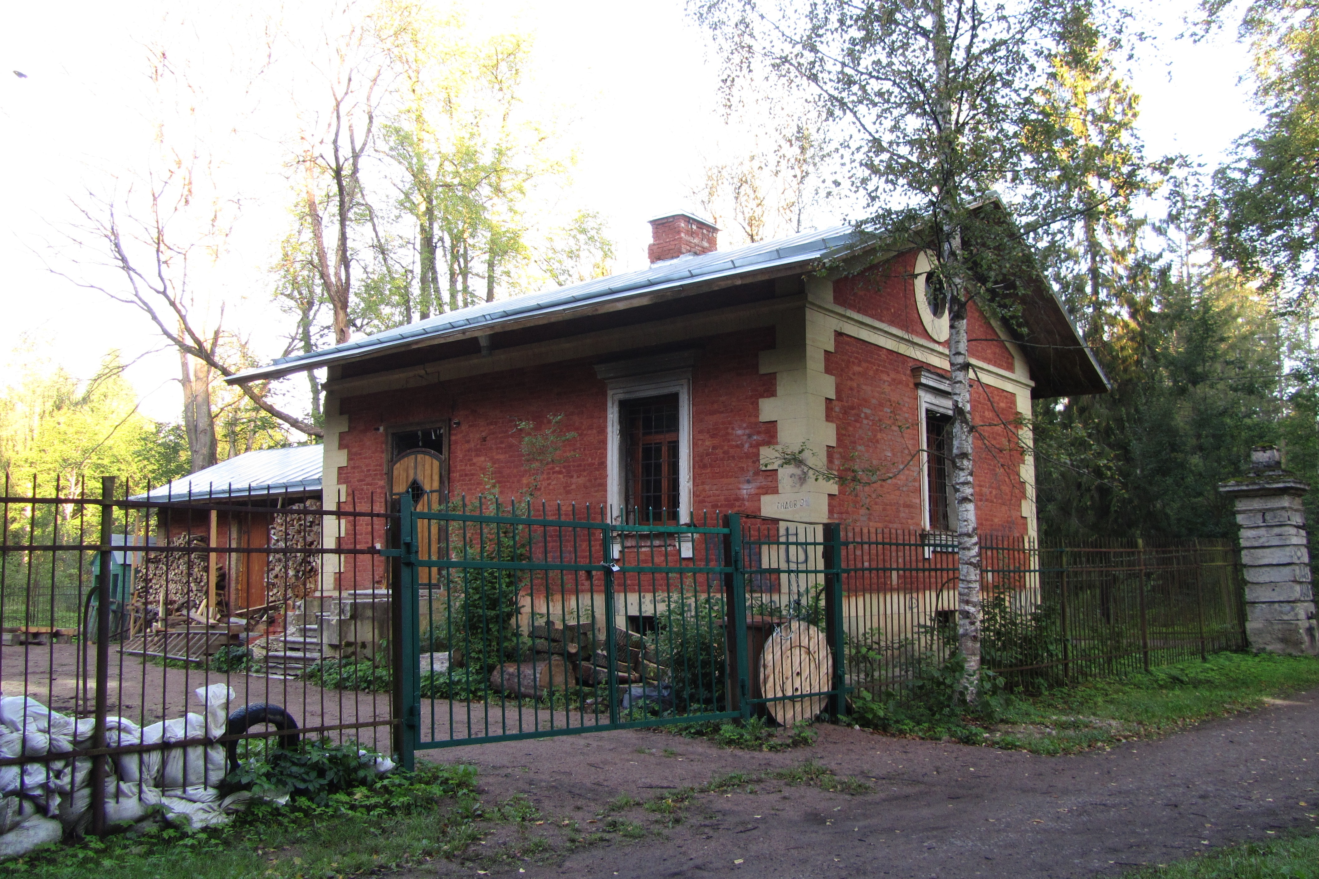 Guardhouse No 7, Gatchina, Russia (2014)